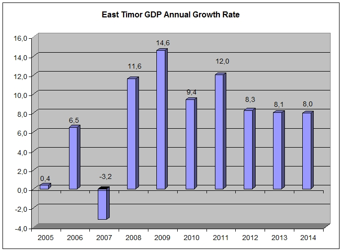 East Timor GDP Annual Growth Rate 2005-2014